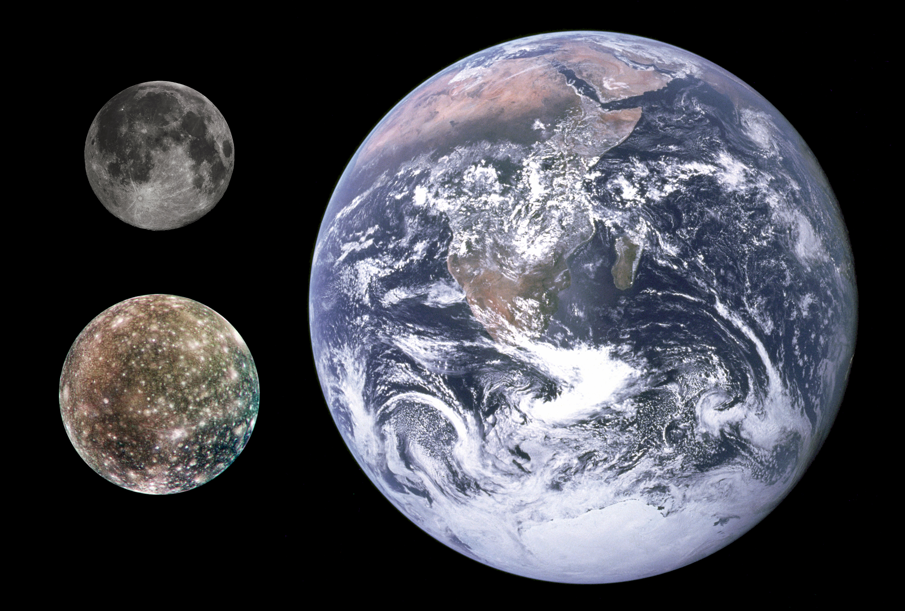 Diameter comparison of Callisto, Moon, and Earth. Scale: Approximately 29km per pixel.